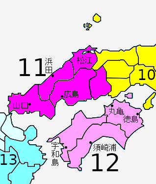 The fifth army region was composed of the 11th Divisional Region (north) and the 12th Divisional Region (south). From the 'Six Region Chindai Table' (Rokkan Chindai Hyo) published in 1875.